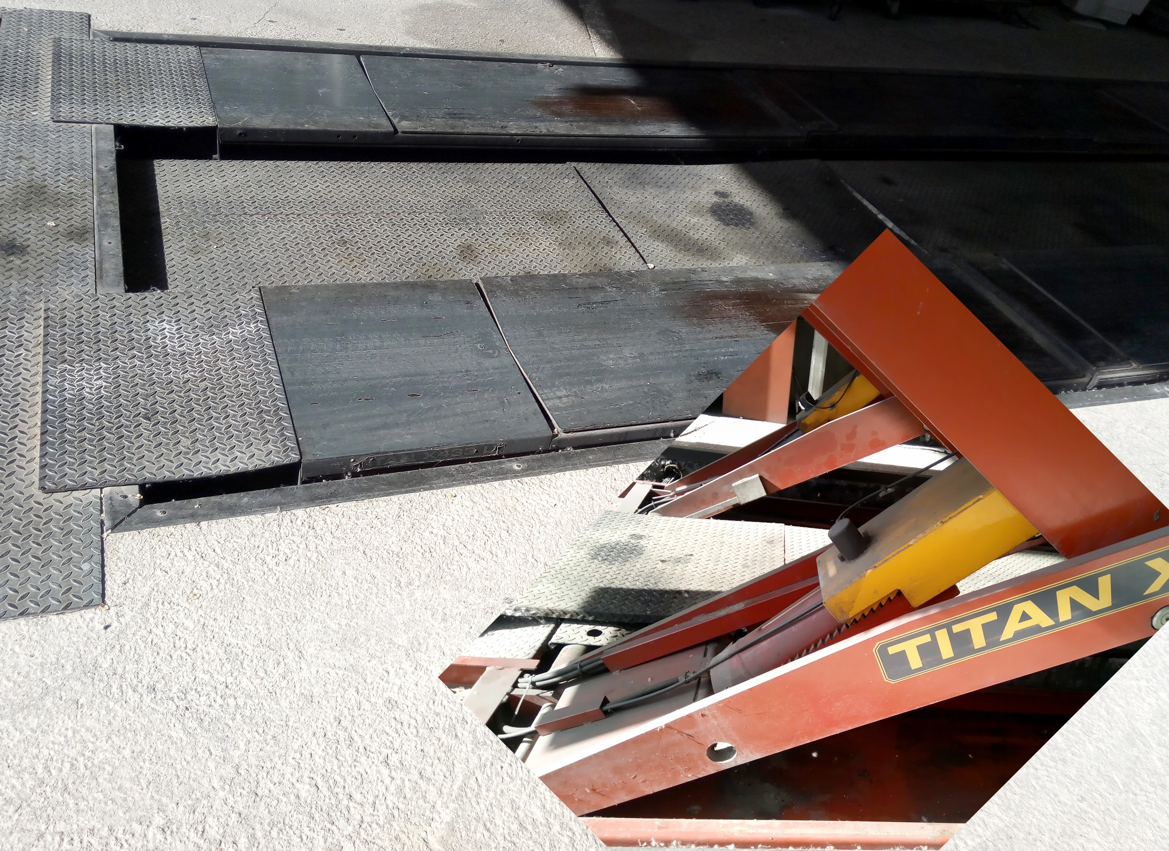 Pantograph lift bridge with detail of the safety system at the lowering of the trolley